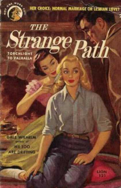 Cover of "The Strange Path" by Gale Wilhelm, cover art by Robert Maguire, 1953 Edition.